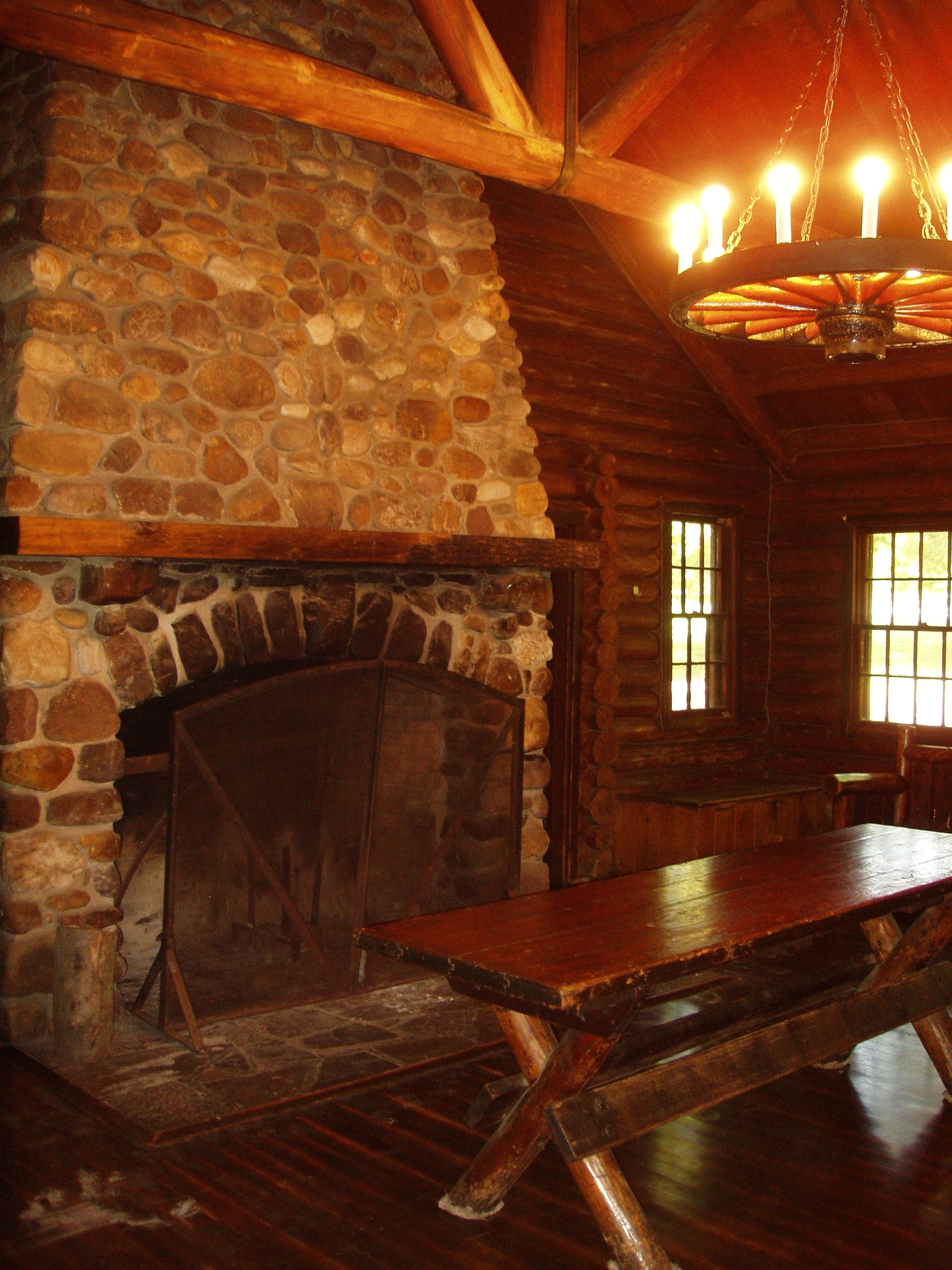 Photograph of Rutgers Gardens, Rutgers University, East Brunswick, New Jersey, USA. Log cabin.